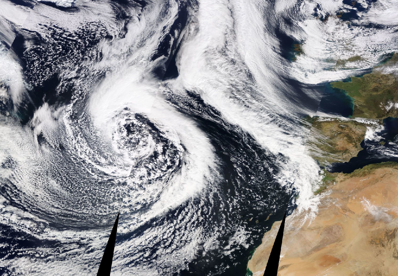 Large blizzard Emma on 26 January over the Azores while nearing Portugal